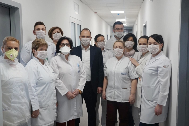 Venko Filipče visiting the laboratory in Skopje